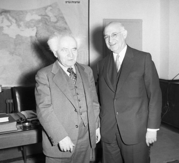 Prime Minister of Israel, David Ben Gurion meeting with Rabbi Israel Goldstein